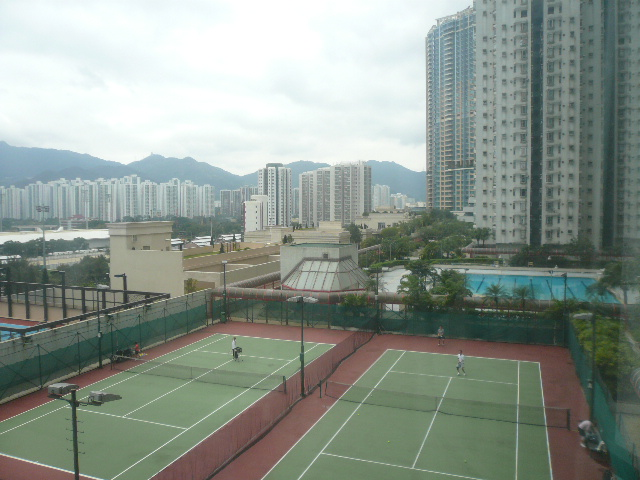 Tennis courts of Jubilee Garden